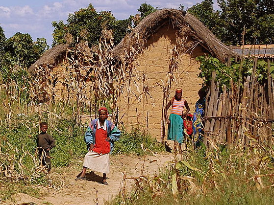 Community mapping gives villagers in Angola insight on how to market their honey. Through the assistance of a USAID-funded municipal development team, residents of communities such as Andulo, Angola, have found ways to use their knowledge of producing honey to generate income.